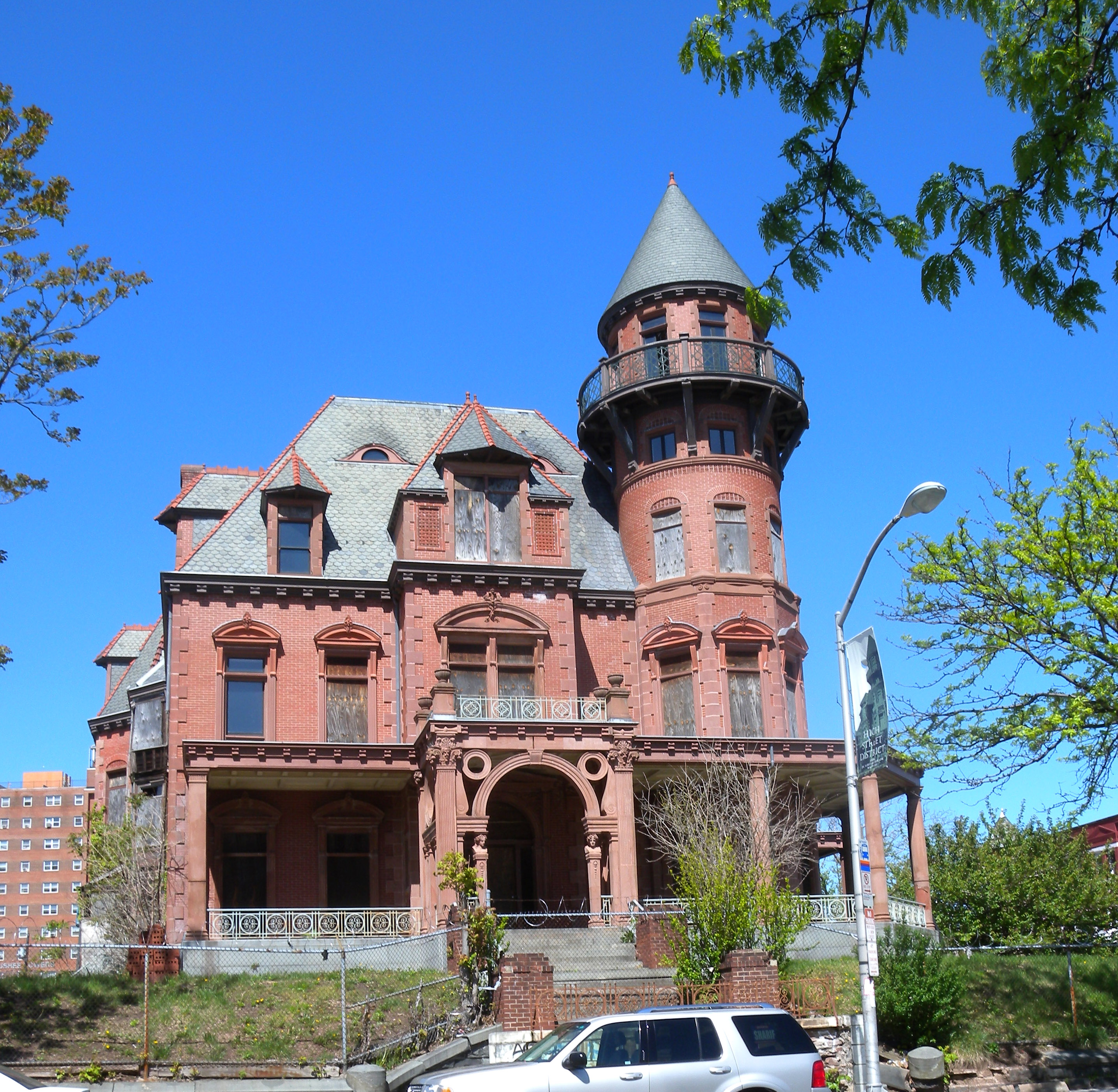 Looking west across High Street, south of Court Street, at the palatial Krueger Mansion, home of Gottfried Krueger on a sunny morning.